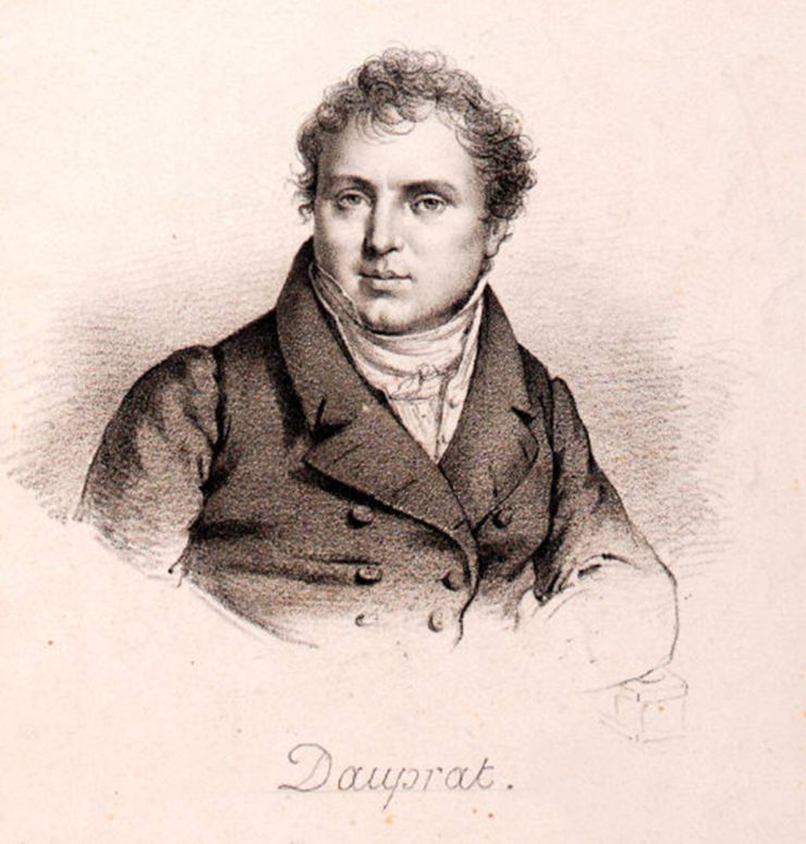 Portrait of French horn player Louis François Dauprat (1781-1868)